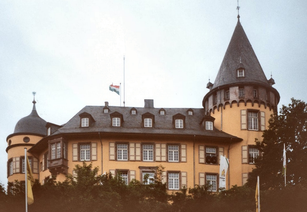 Genovevaburg in Mayen, residential building